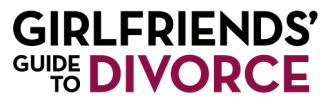 Logo for the US television show Girlfriends' Guide to Divorce